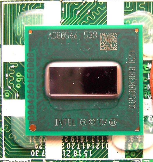 Intel Atom CPU Z520, 1,333GHz